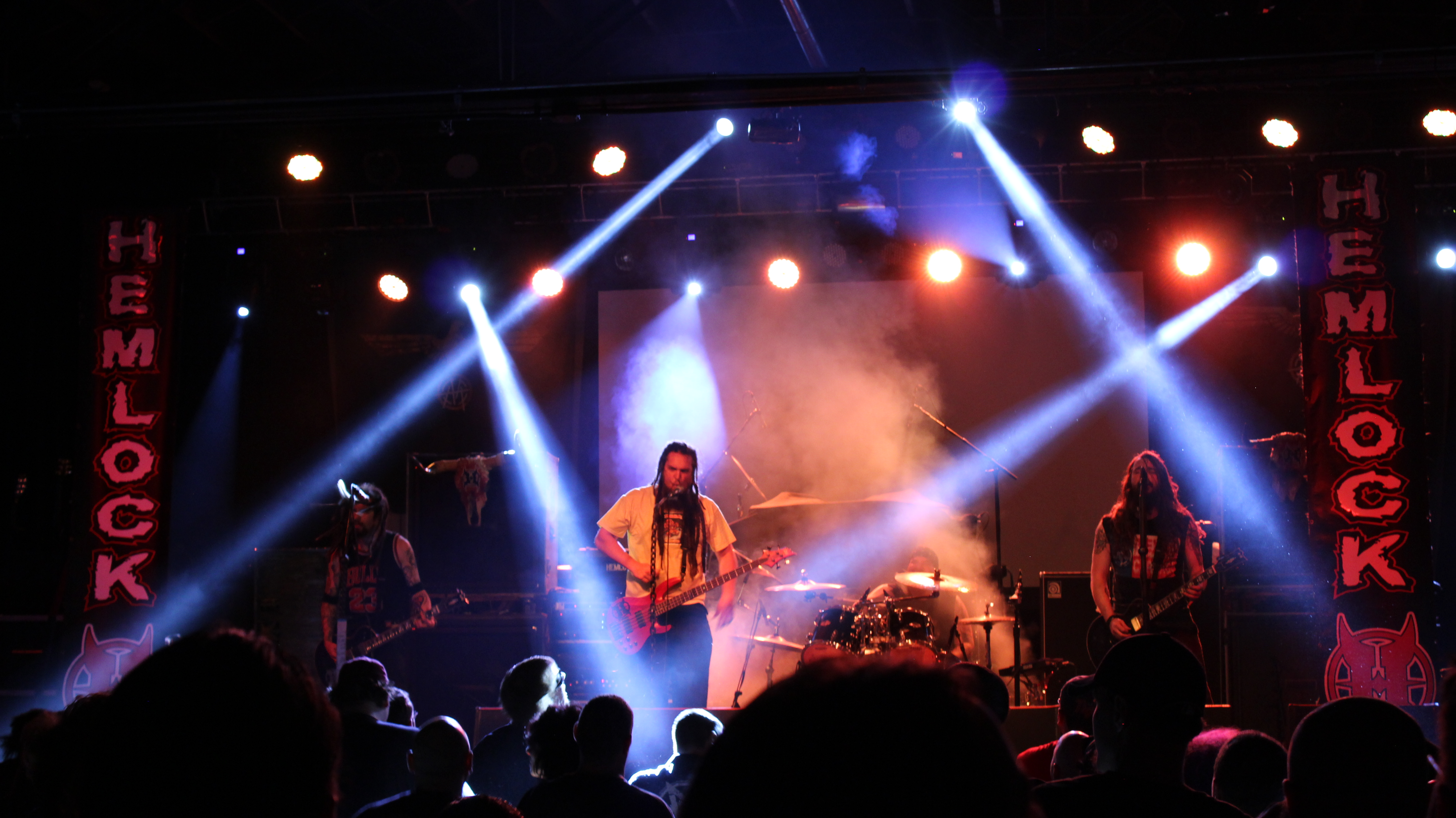 a photo of the band Hemlock on tour in 2016